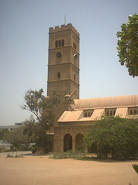 Trinity Cathedral, Karachi, Pakistan ca2002. Center of Diocese of Karachi, Church of Pakisan